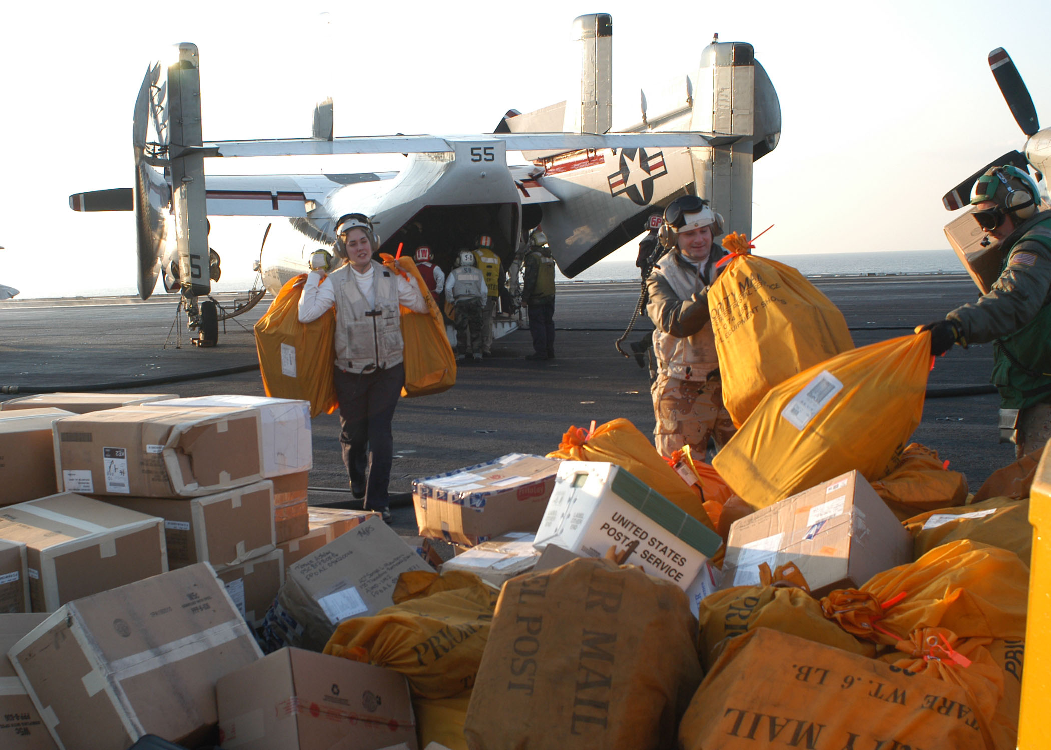 The Mediterranean Sea (Mar. 31,2003) -- Flight deck personnel unload mail from a C-2A Greyhound assigned to the “Rawhides” of Fleet Logistics Support Squadron Forty (VRC-40) on the flight deck aboard USS Theodore Roosevelt (CVN 71). Roosevelt and Carrier Air Wing Eight (CVW-8) are deployed conducting missions in support of Operation Iraqi Freedom, the multi-national coalition effort to liberate the Iraqi people, eliminate Iraq’s weapons of mass destruction, and end the regime of Saddam Hussein.